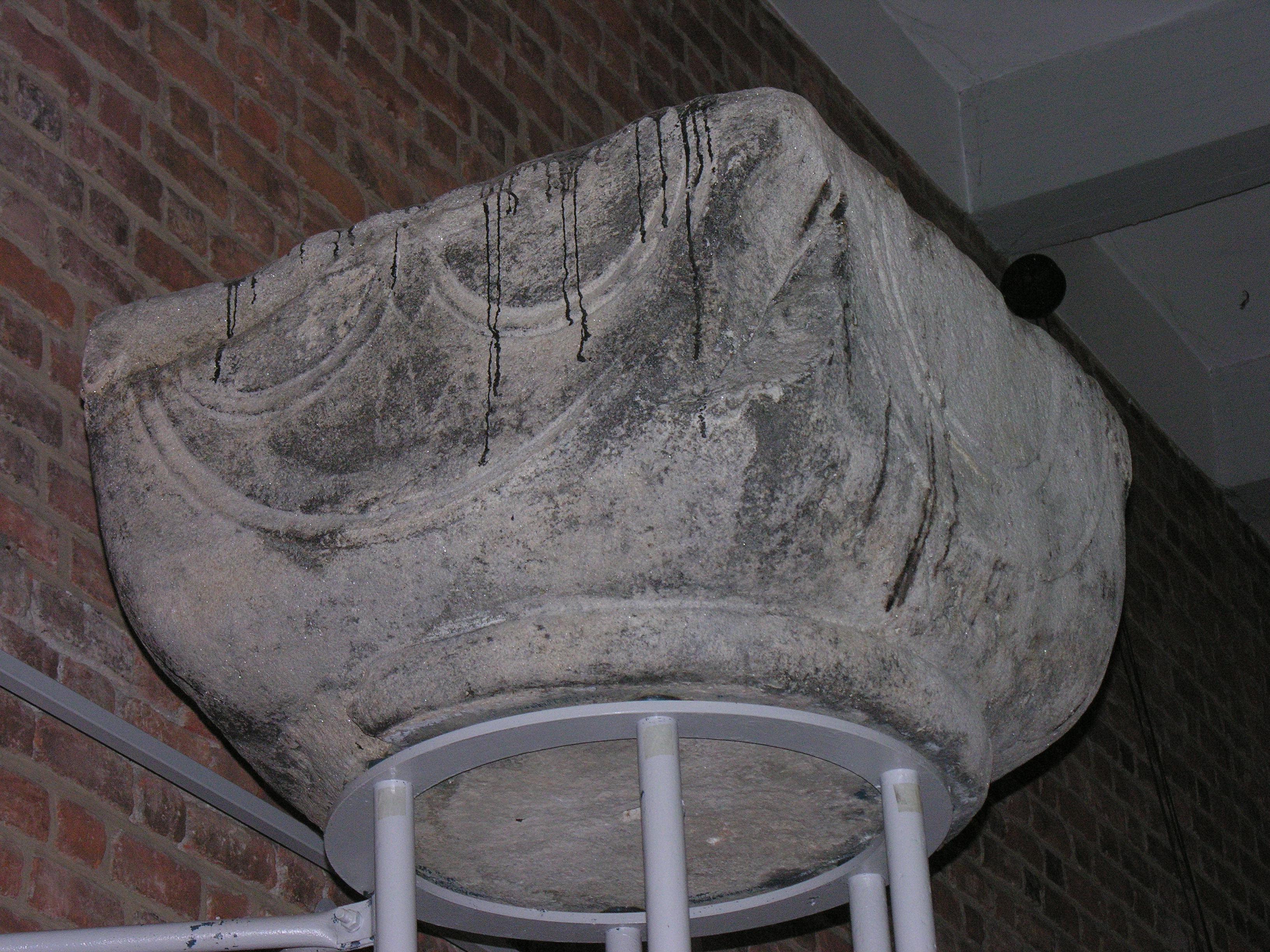 Głowica kolumny z opactwa na Ołbinie